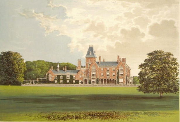 Old print of Hemsted Park, Benenden